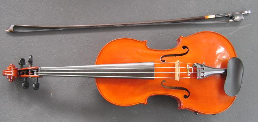 Viola